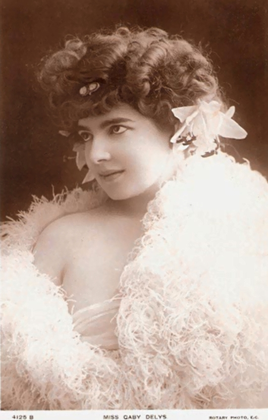 Miss Gaby Deslys.